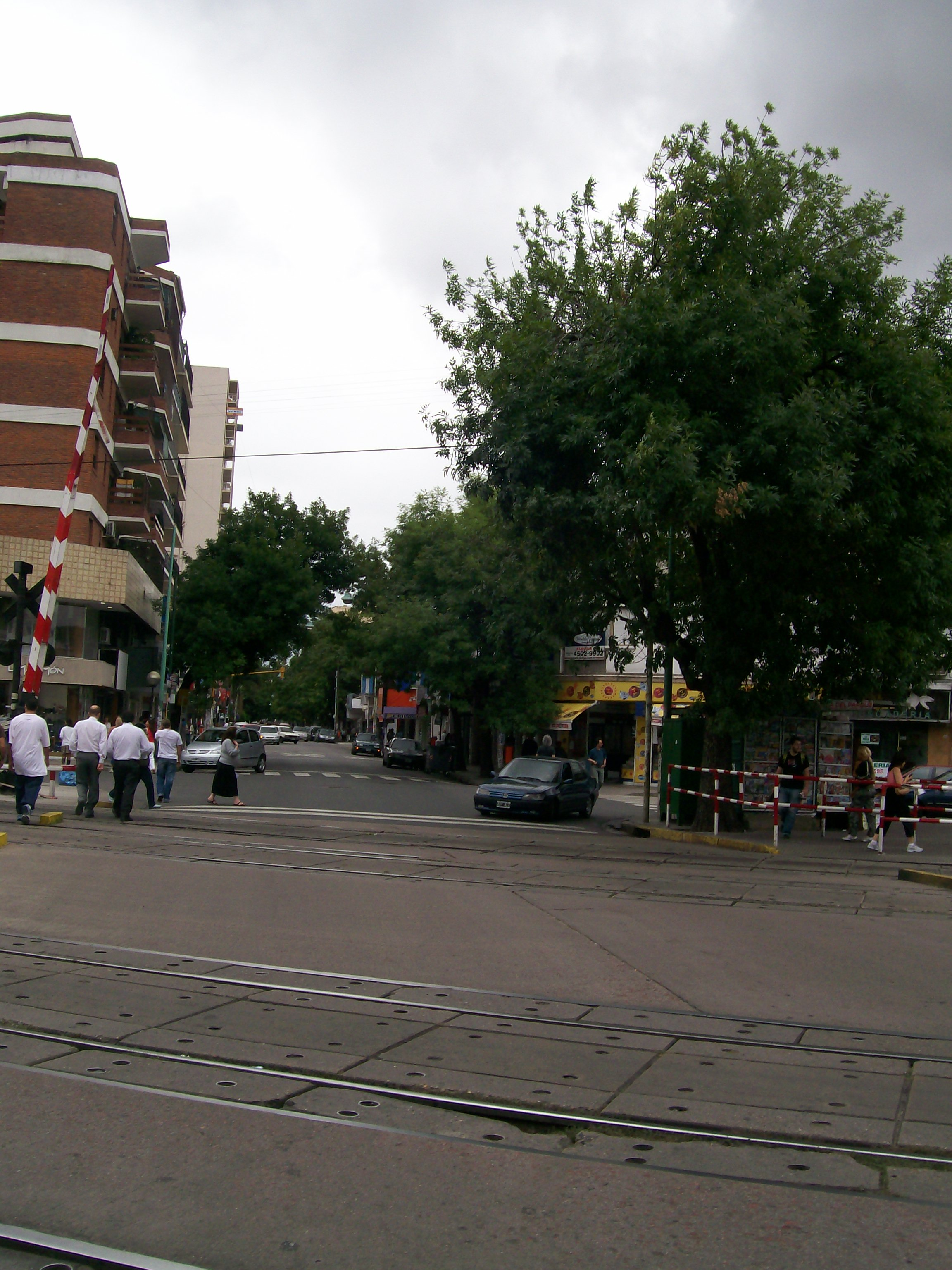 The intersection of Ferrocarril General San Martín railway line with Cuenca street, in Villa del Parque neighborhood of Buenos Aires (Argentina).